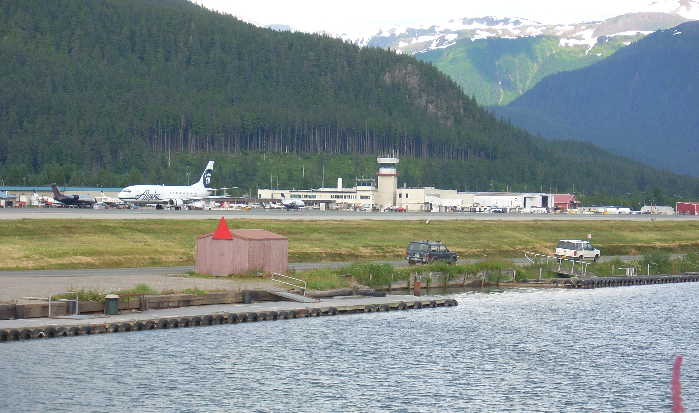 JNU with floatplane runway in foreground and a southbound Alaska airline flight preparing to taxi.